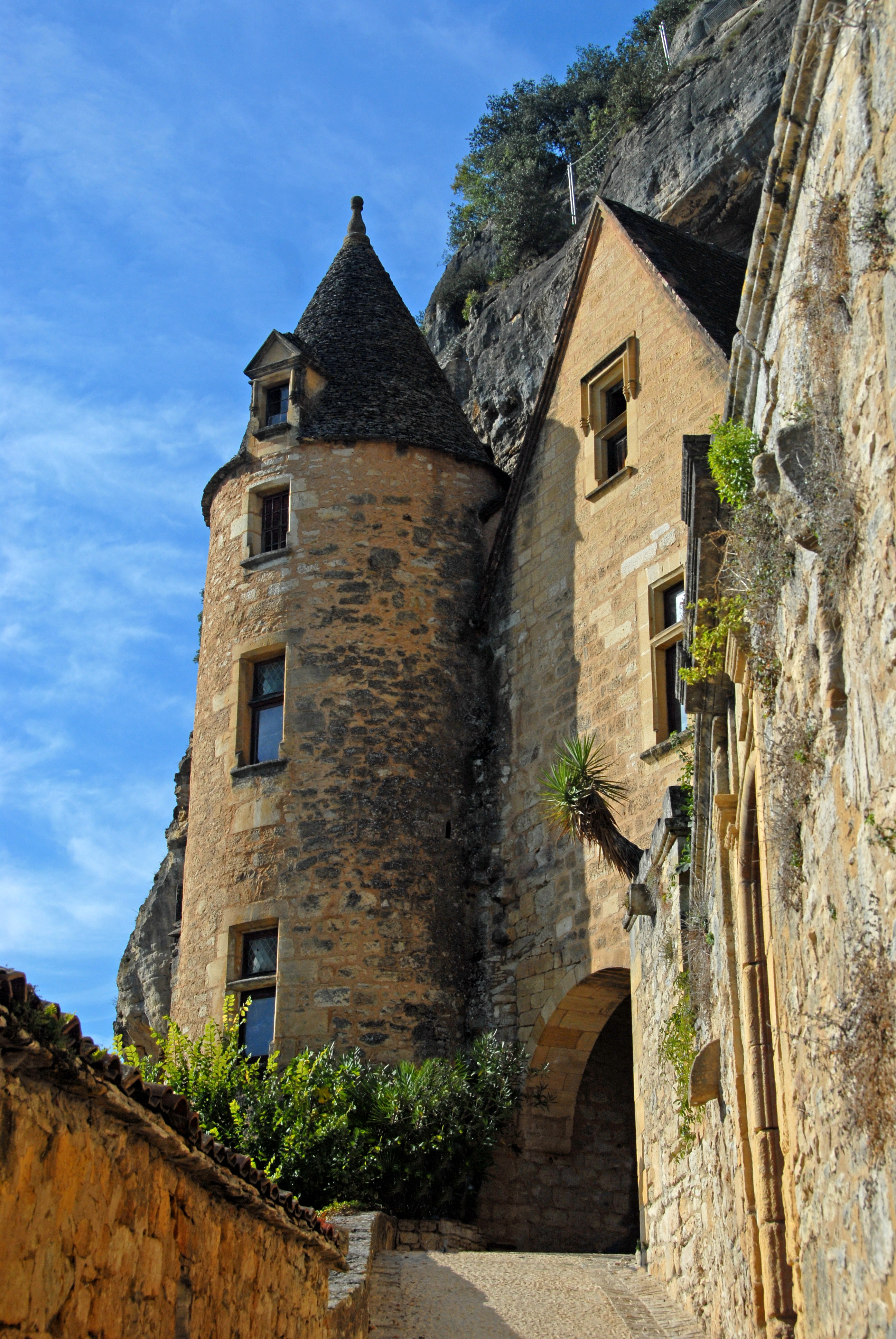 La Roque-Gageac, Manoir de Tarde and alleyway